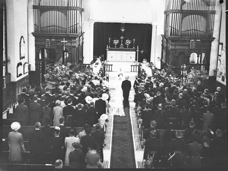 Photograph of wedding in St James' Church, Sydney, taken by Sam Hood from gallery